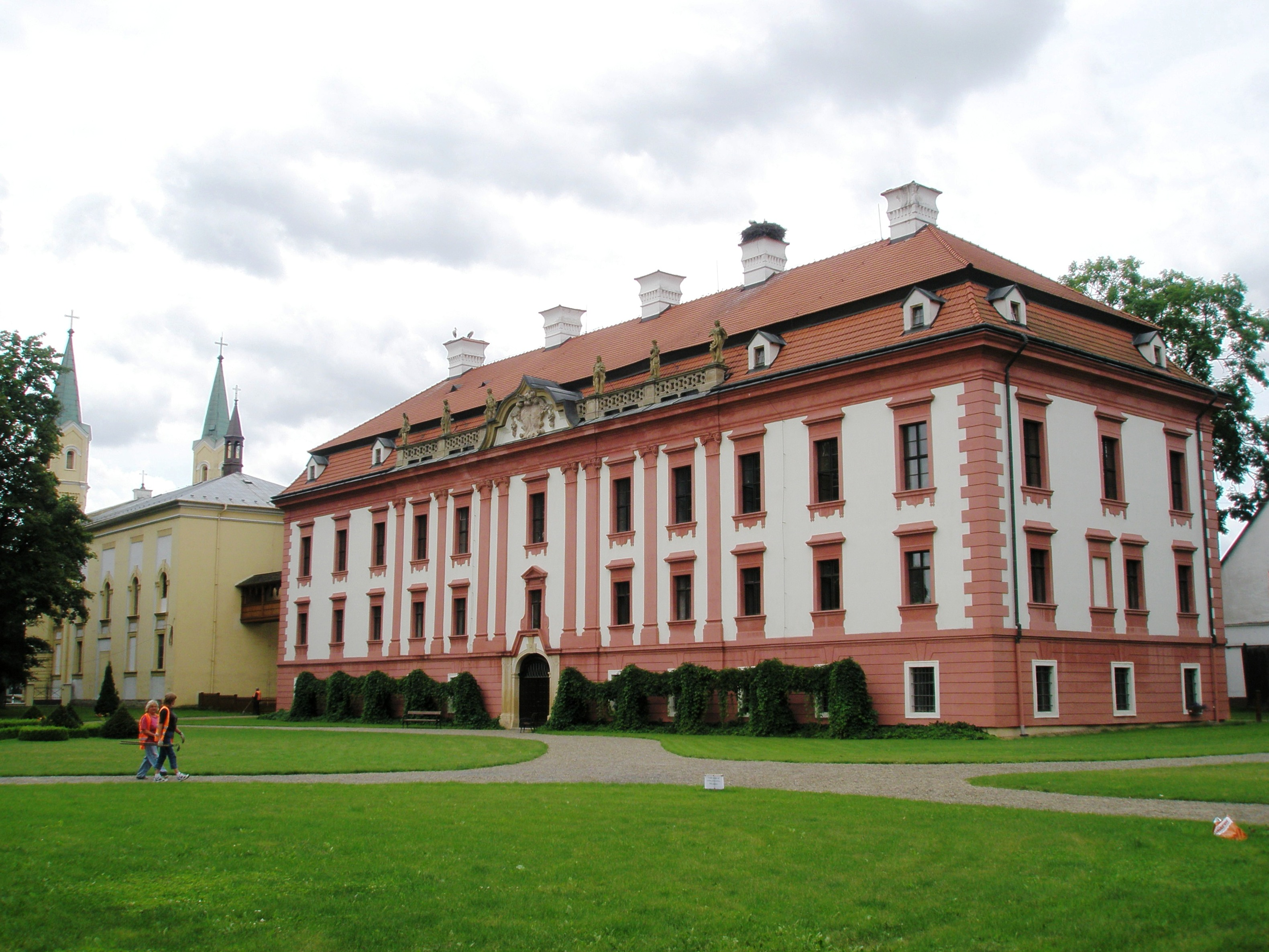 The château and church in Kunín